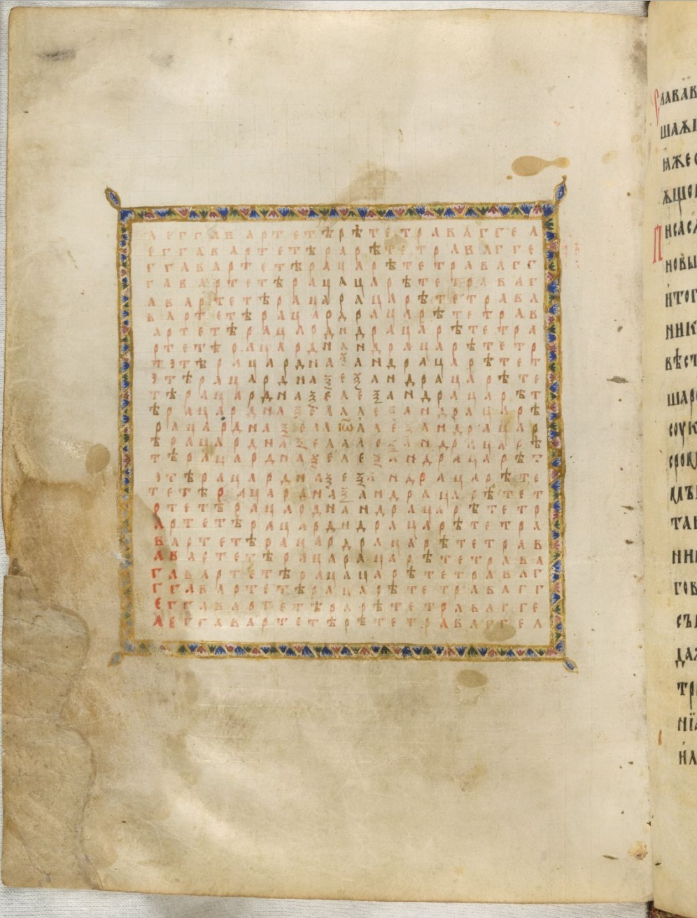 Magic square encoding the name of Tsar Ivan Alexander.